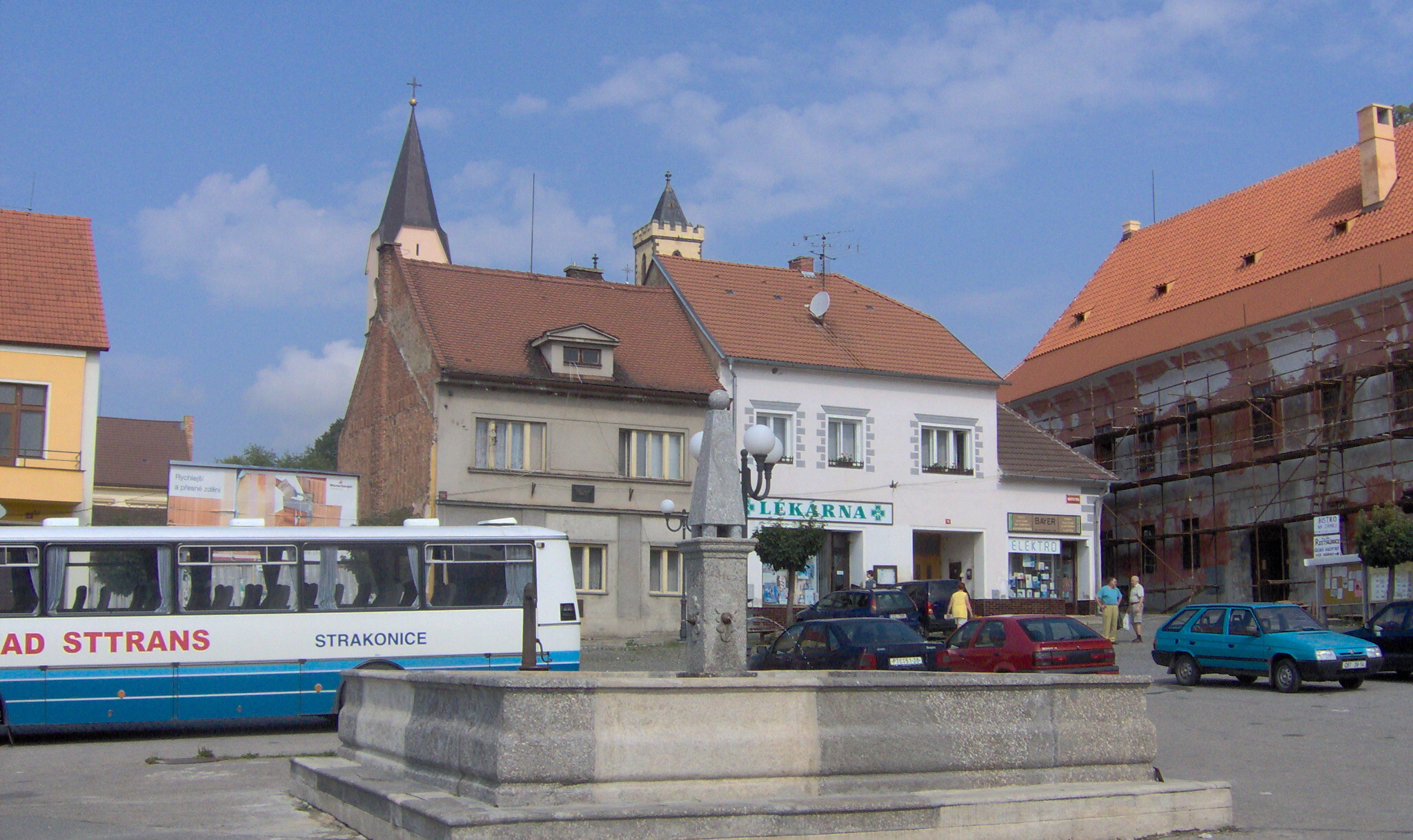 Square in Bavorov, Strakonice District, Czech republic